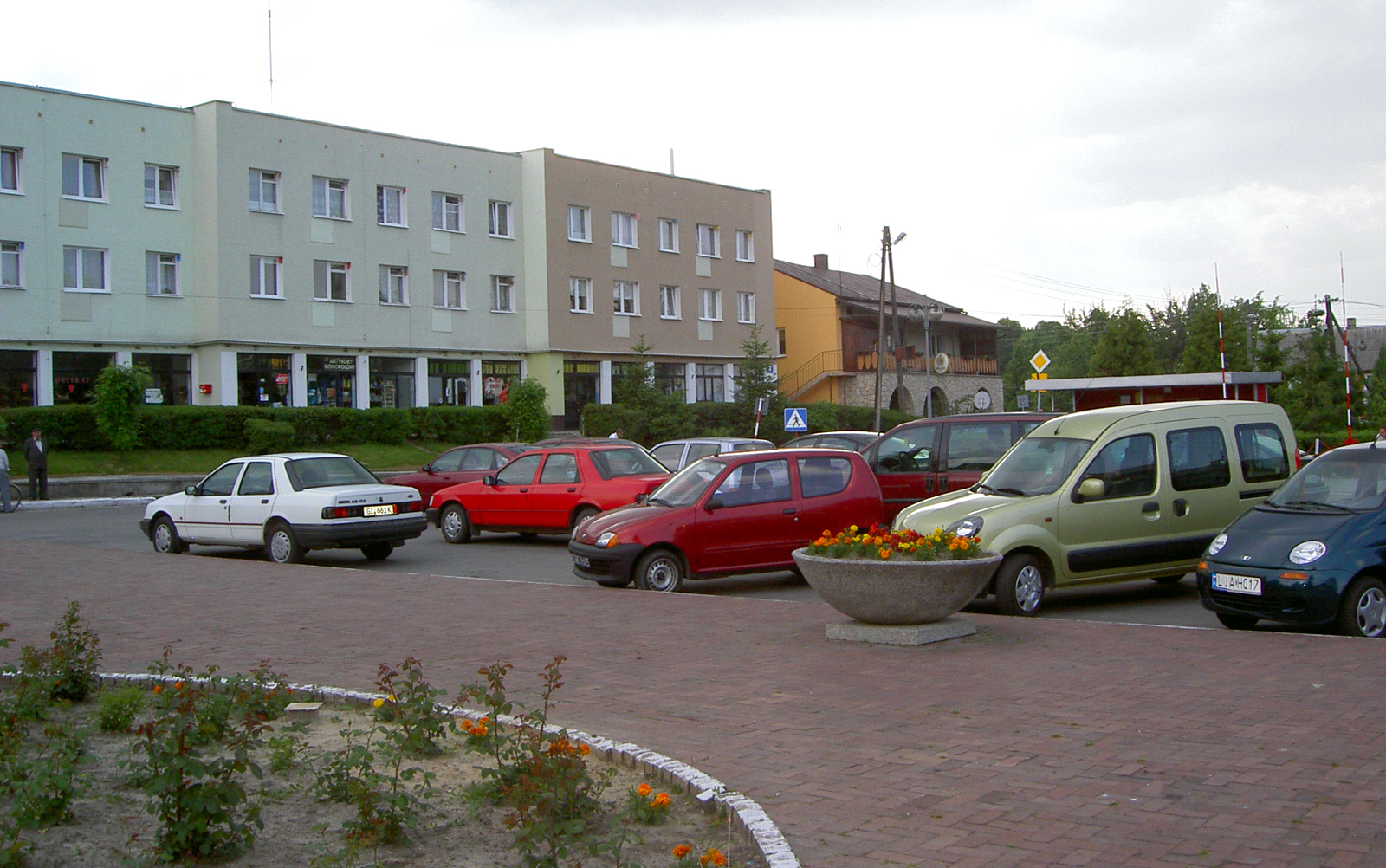 Goraj, Poland • Bloki w rynku / Town square, housing blocks